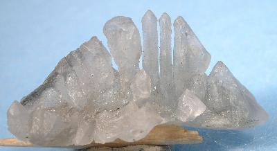 Salammoniac Locality: former Ravat Village, Yagnob River, joint of Zeravshan and Gissar Range, Viloyati Sogd (Viloyati Sughd), Tajikistan (Locality at ) Size: thumbnail, 2.7 x 1.2 x 1 cm Salammoniac Sal Ammoniac is a weird orgnaic species of ammonium chloride composition. This is a striking Sal Ammoniac crystal with unbelievably sharp and aesthetic spines. Their luster, clarity, and form are terrific, and the little bit of gray along the back spines adds interest and contrast.